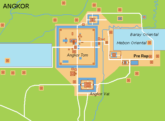 Pre Rup plan, from “Karta AngkorWat.PNG”. Angkor. Cambodia